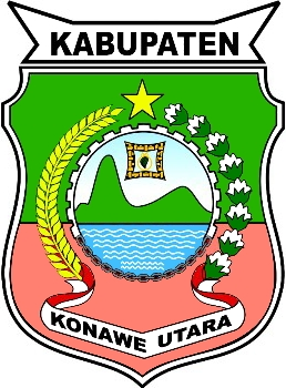 Coat of arms of North Konawe Regency, South East Sulawesi